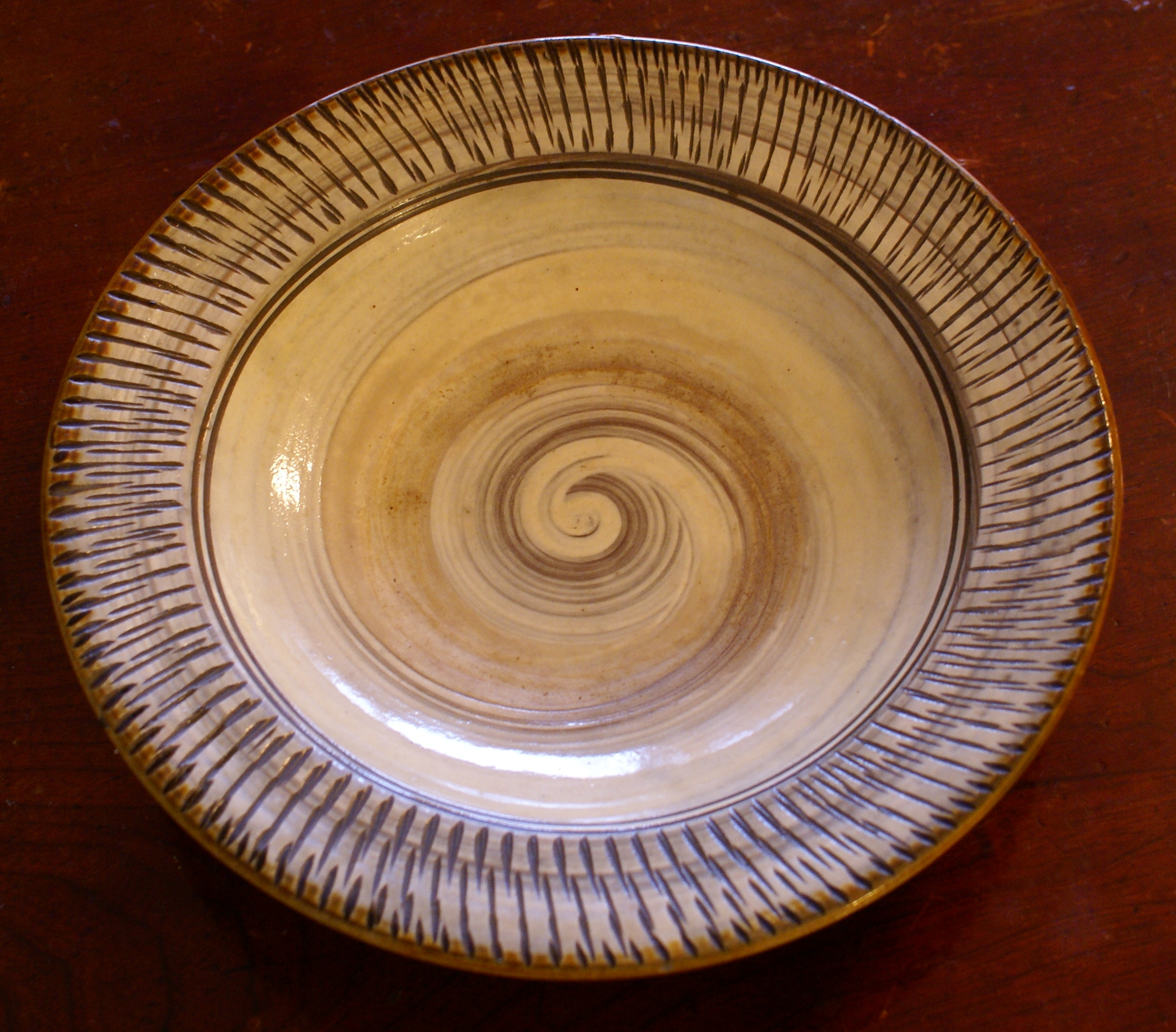 Ondayaki (Ohita, Nippon)